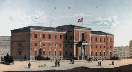 The former Freemasons' Hall in Klerkegade No. 2 in Copenhagen, Denmark